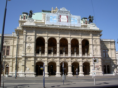 Austria, Vienna, Vienna State Opera